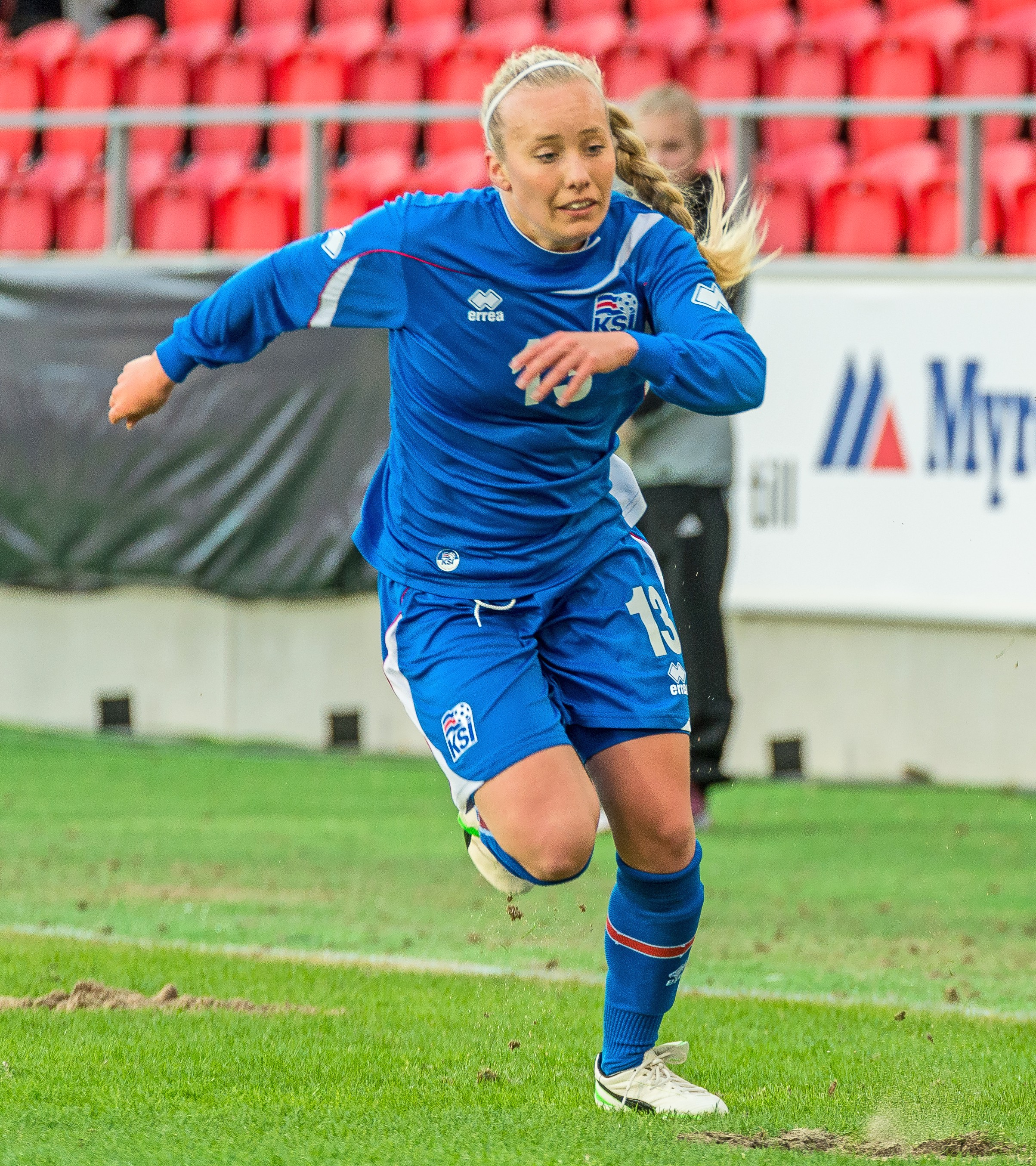 Icelandic footballer Elísa Vidarsdóttir playing an international friendly against Sweden at Myresjöhus Arena in Växjö, 6 April 2013.